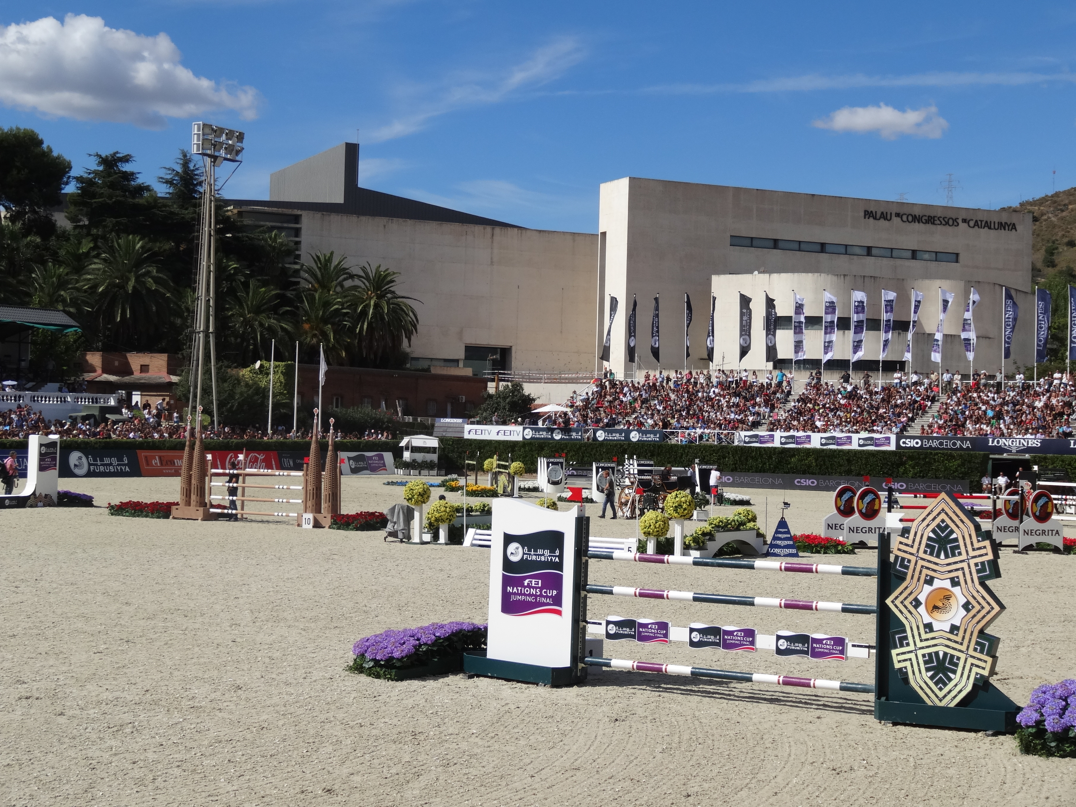 CSIO Barcelona 2013 show jumping event